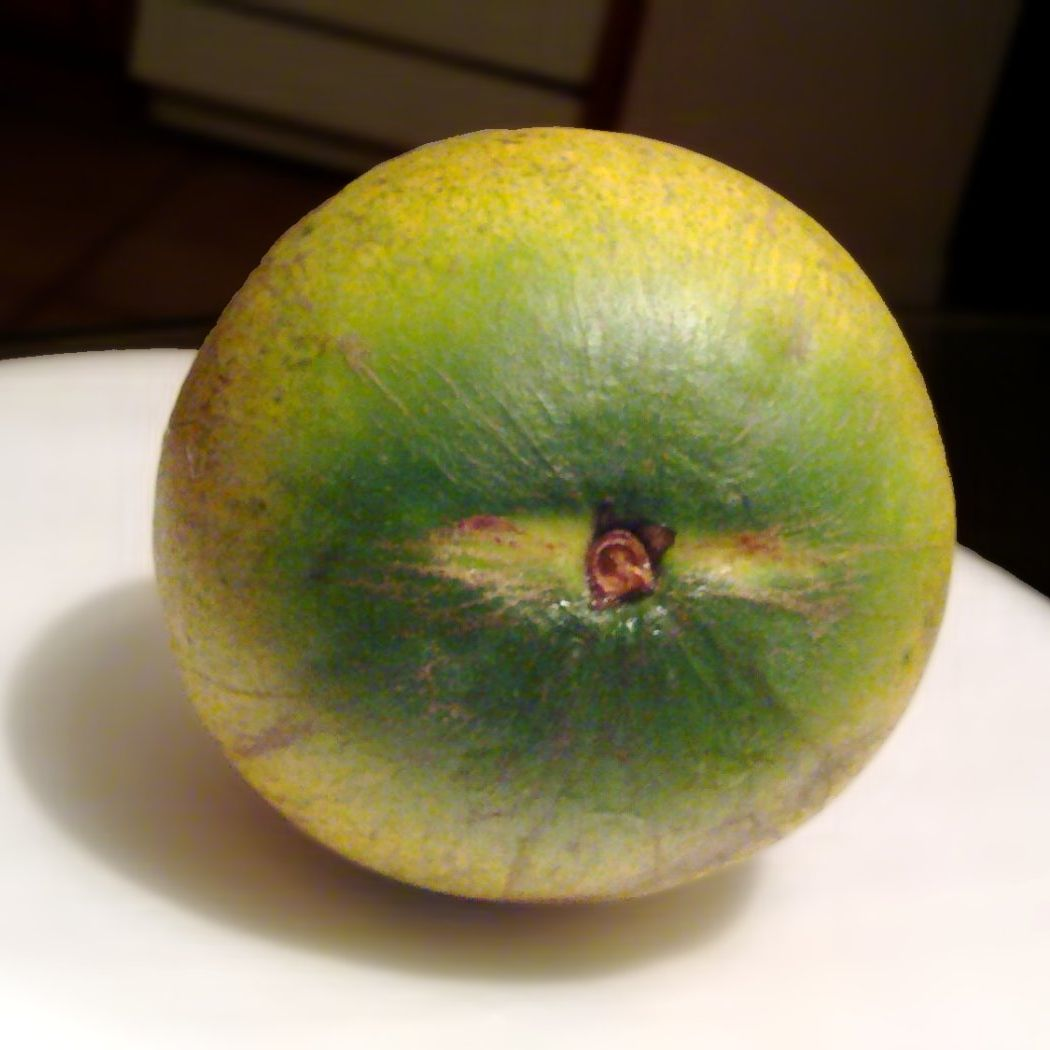 The Abiu fruit stem is short and separates flush with the fruit.